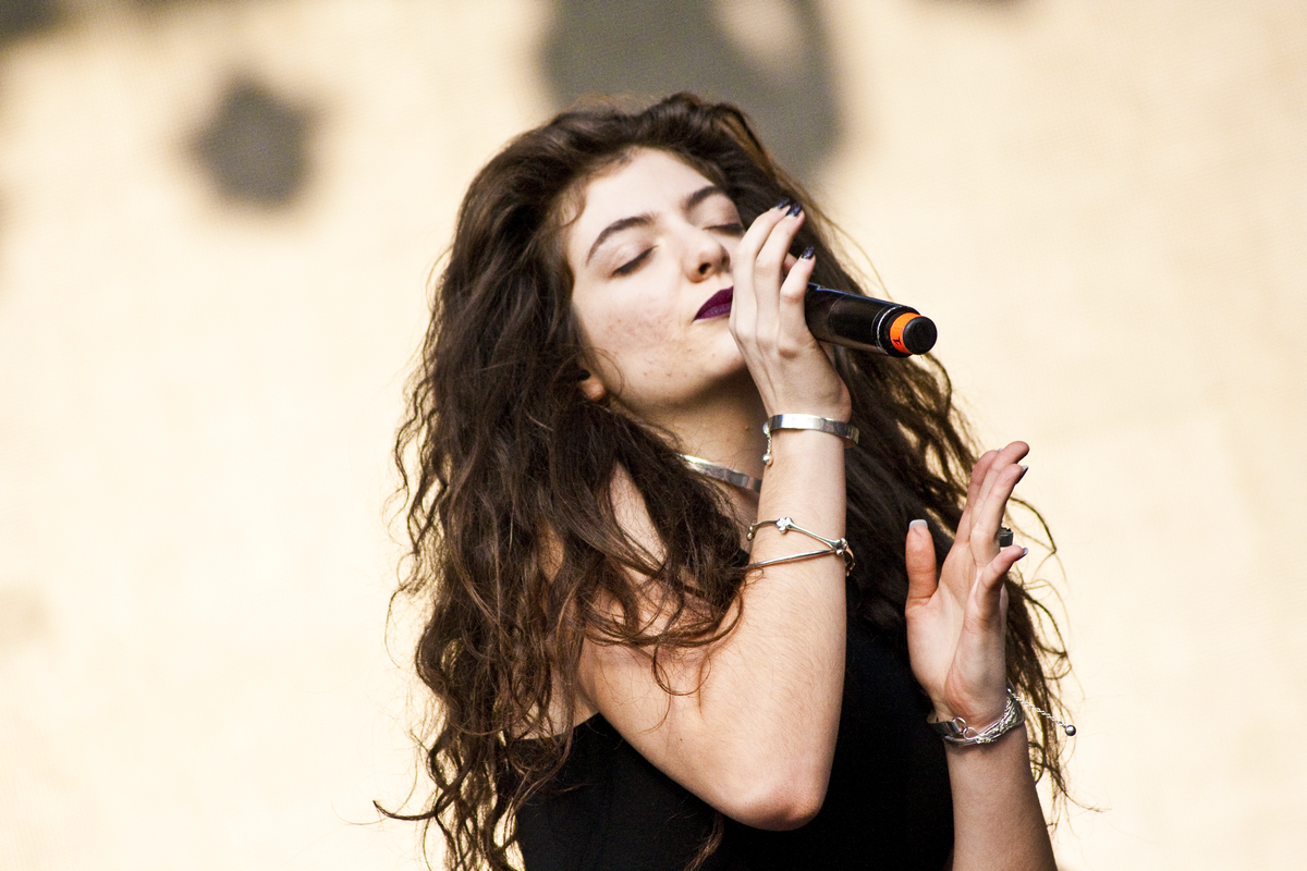 Lorde performing at Lollapalooza Chile in 2014